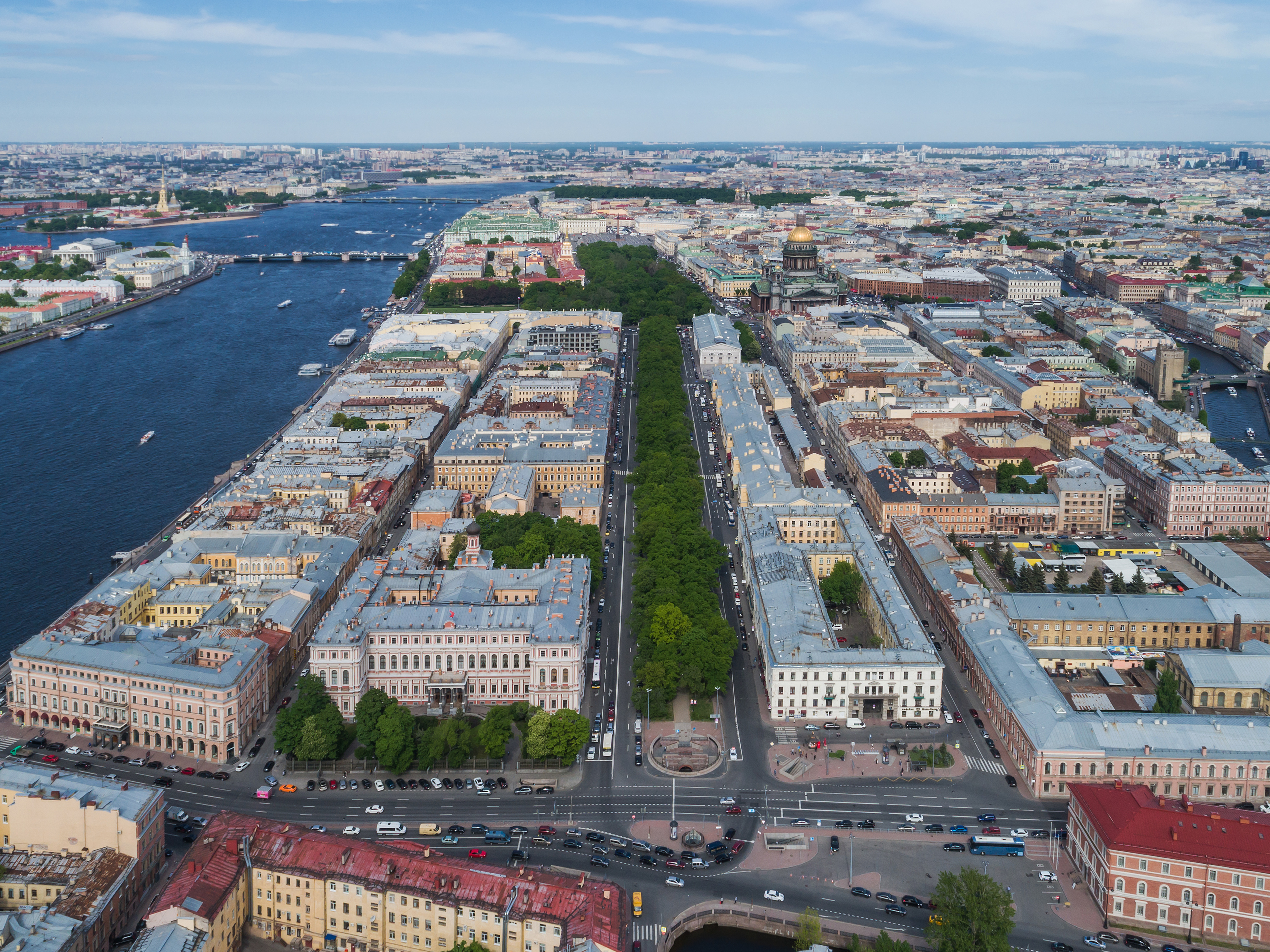 Aerial photo of Truda Square and Konnogvardeysky Boulevard in Saint Petersburg (Russia).